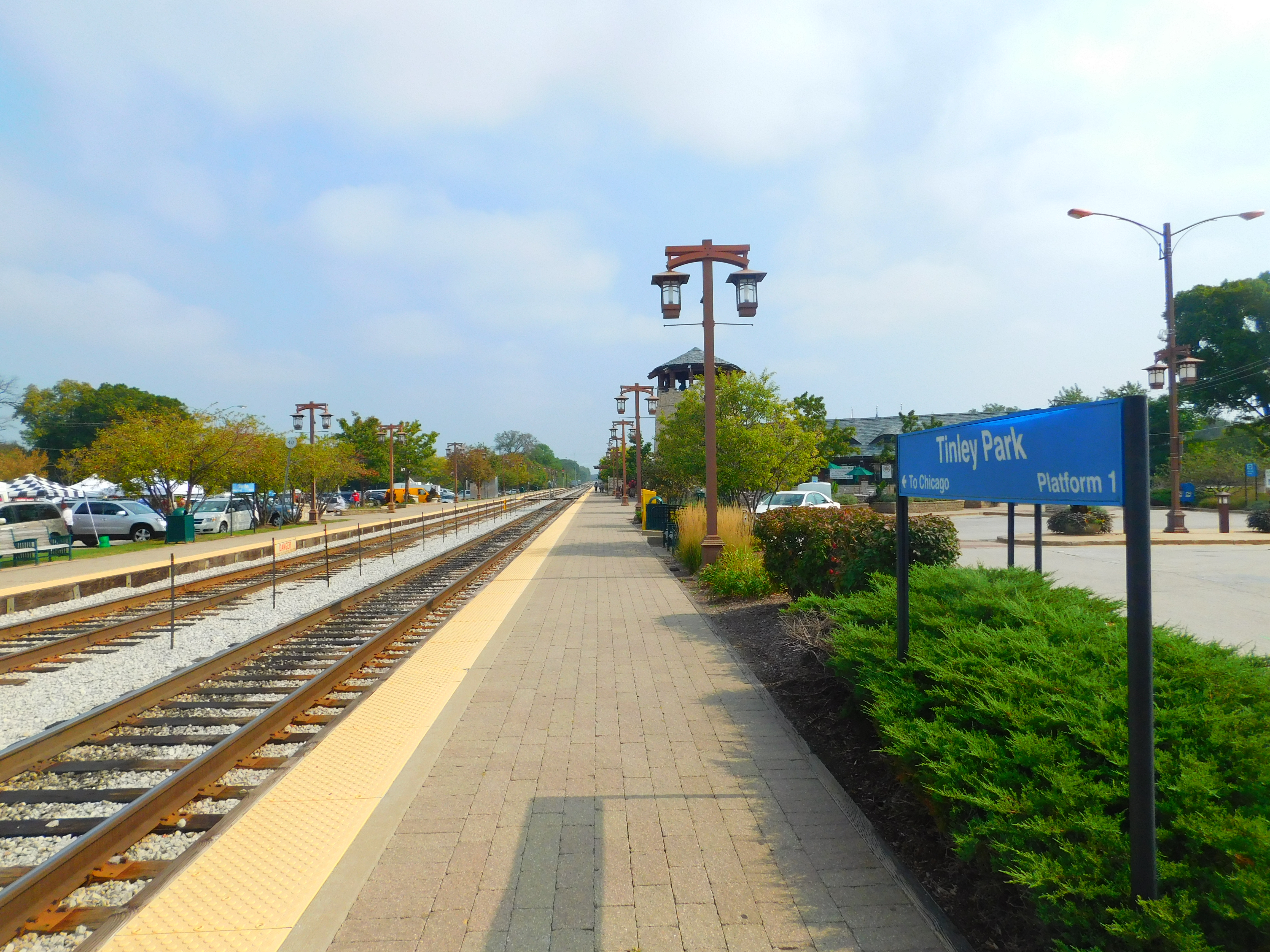 The Tinley Park-Oak Park Avenue station for Metra's Rock Island District.